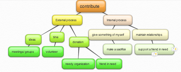 chart to illustrate meaning of contribute